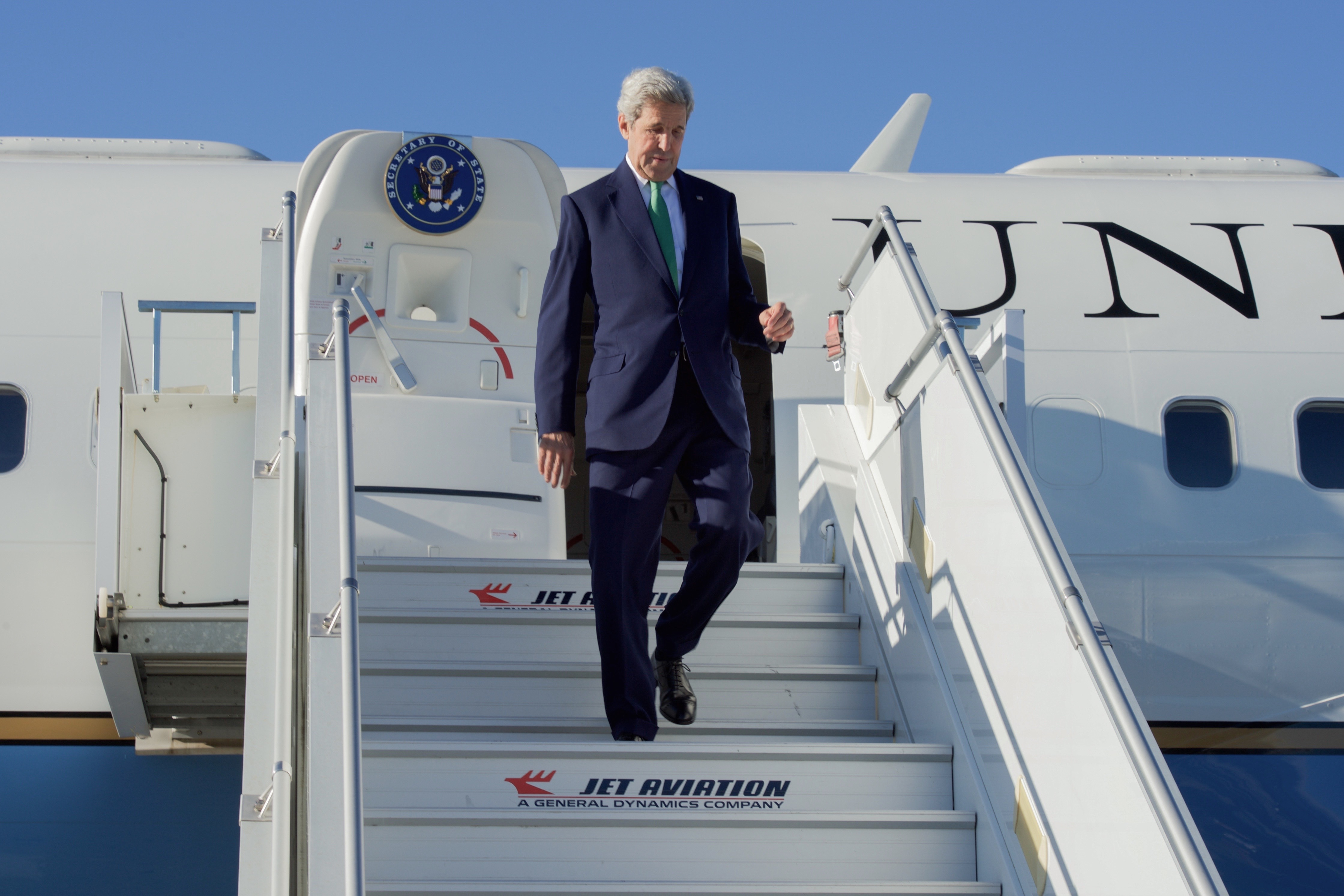 U.S. Secretary of State John Kerry deplanes at Geneva Contain Airport in Geneva, Switzerland, after arriving from Kigali, Rwanda, for a meeting in nearby Lausanne focused on Syria. [State Department photo/ Public Domain]